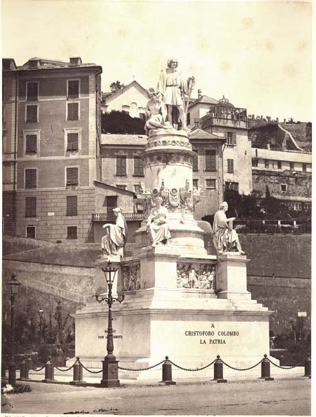 Giorgio Sommer (1834-1914) - "Genoa. Monument to Christopher Columbus". Derivate from the stereo card # 957.